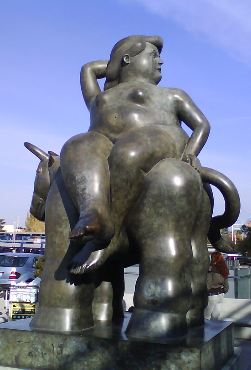 The rape of Europa , bronze sculpture of Fernando Botero, in the airport of Barajas, Madrid, Spain